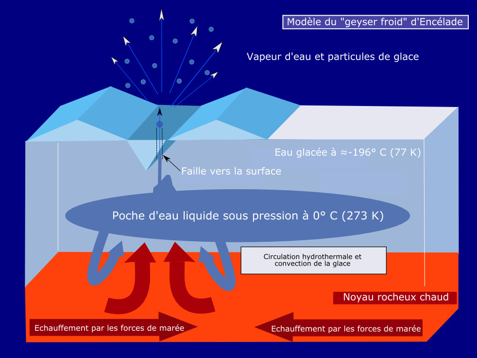 Enceladus cold geyser